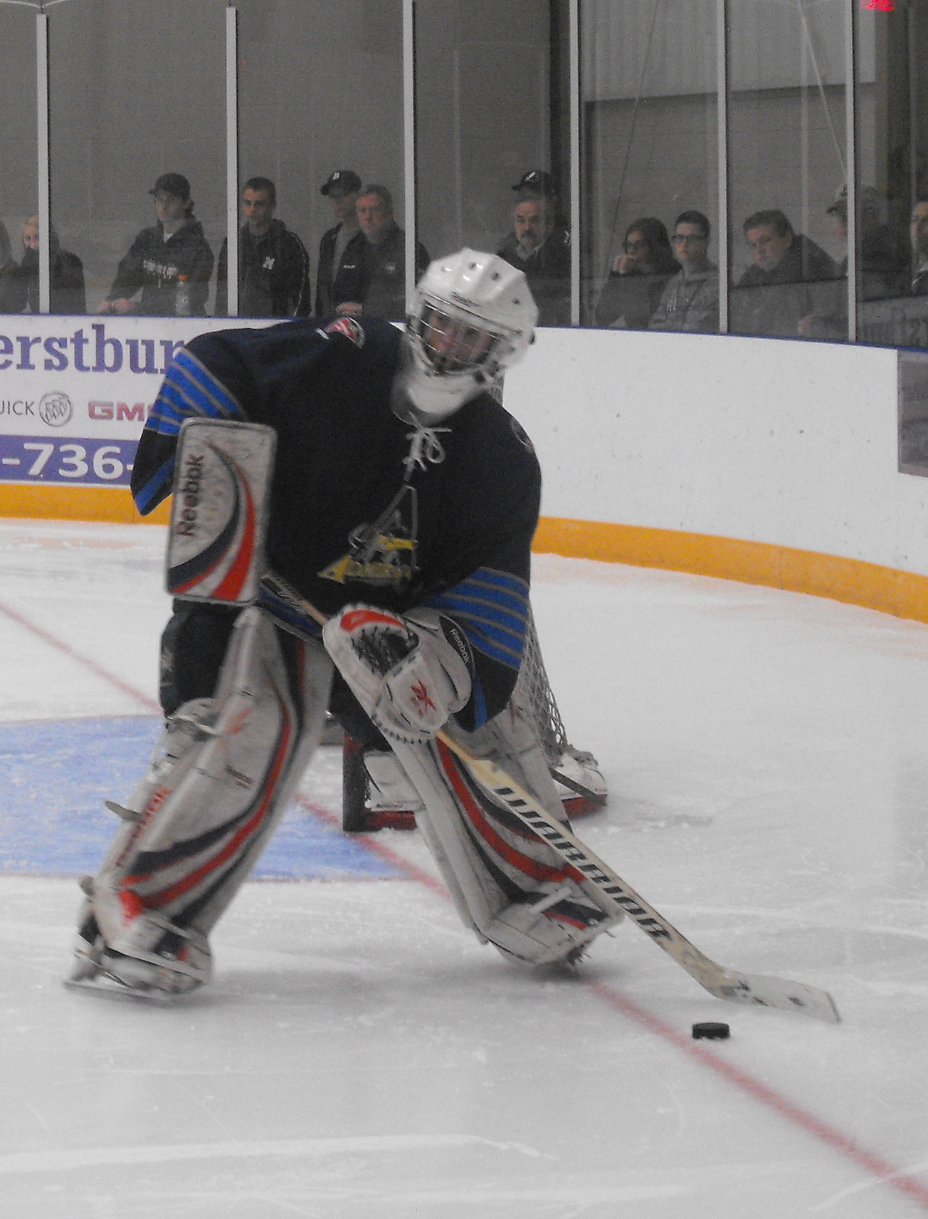 These images of GLJHL action are taken by Devan Mighton.